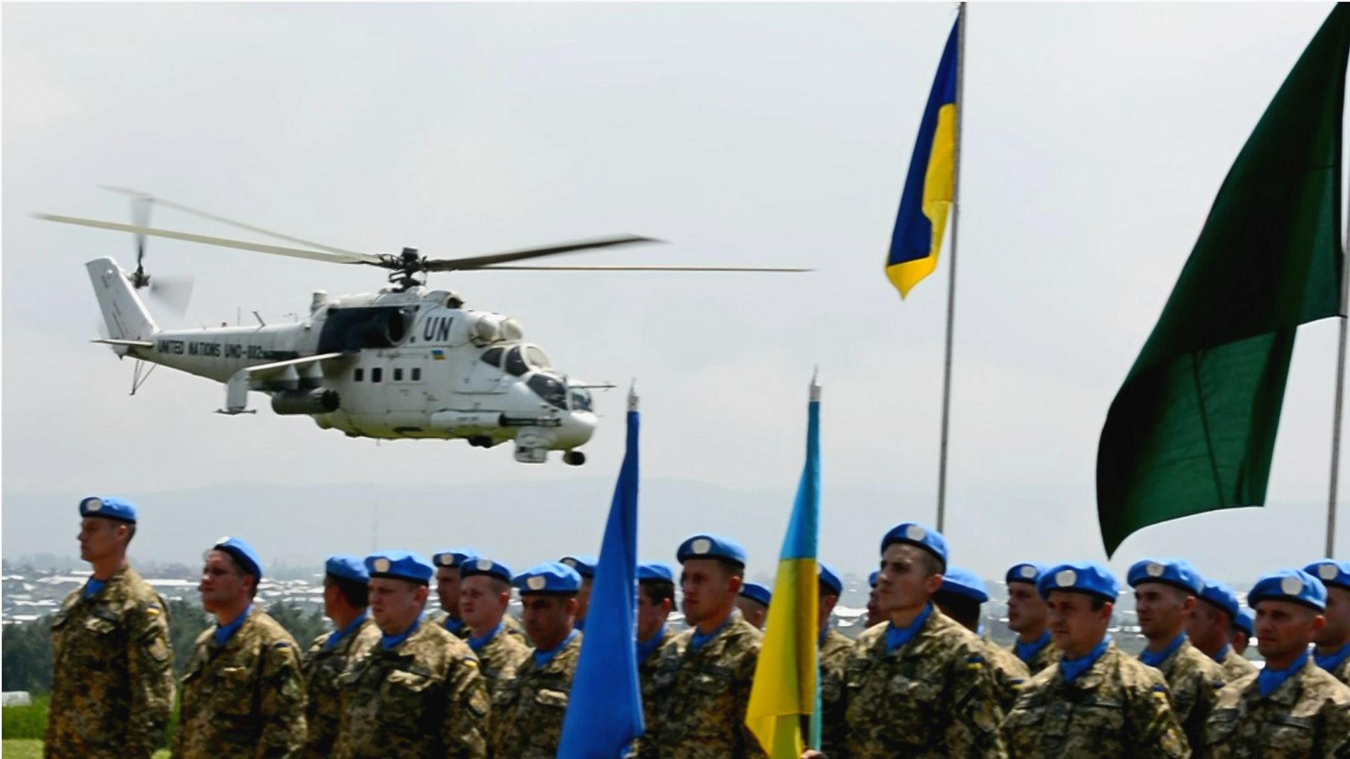 December 12, at the base camp in Bunia Aviation Group 18th separate helicopter unit that performs the task of the UN Stabilization Mission in the Democratic Republic of Congo, where the commander Colonel of Colonel Vitaly TSAPKO held a "parade of medals." More than 80 Ukrainian peacekeepers 18th separate helicopter detachment of the UN Stabilization Mission in DR Congo received the medal "For Service to Peace". To congratulate the Ukrainian military on holiday visiting commanders of national contingents, located near the base camp of Ukrainian helicopter pilots. On behalf of the United Nations Stabilization Mission in DR Congo was made by General Saif -Ur-Rahman who, on behalf of the mission conveyed greetings Ukrainian peacekeepers. The crew of the Ukrainian Mi-24 during the tasks the United Nations Mission DR Congo: Flights to patrol, fire support of ground forces, armed support aircraft MONUSCO. By Nazar Voloshyn. 12/12/2015